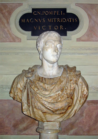 Bust of Pompey in the Residenz, Munich Antiquarium. Photograph by J. Williams. (July 19, 2006).